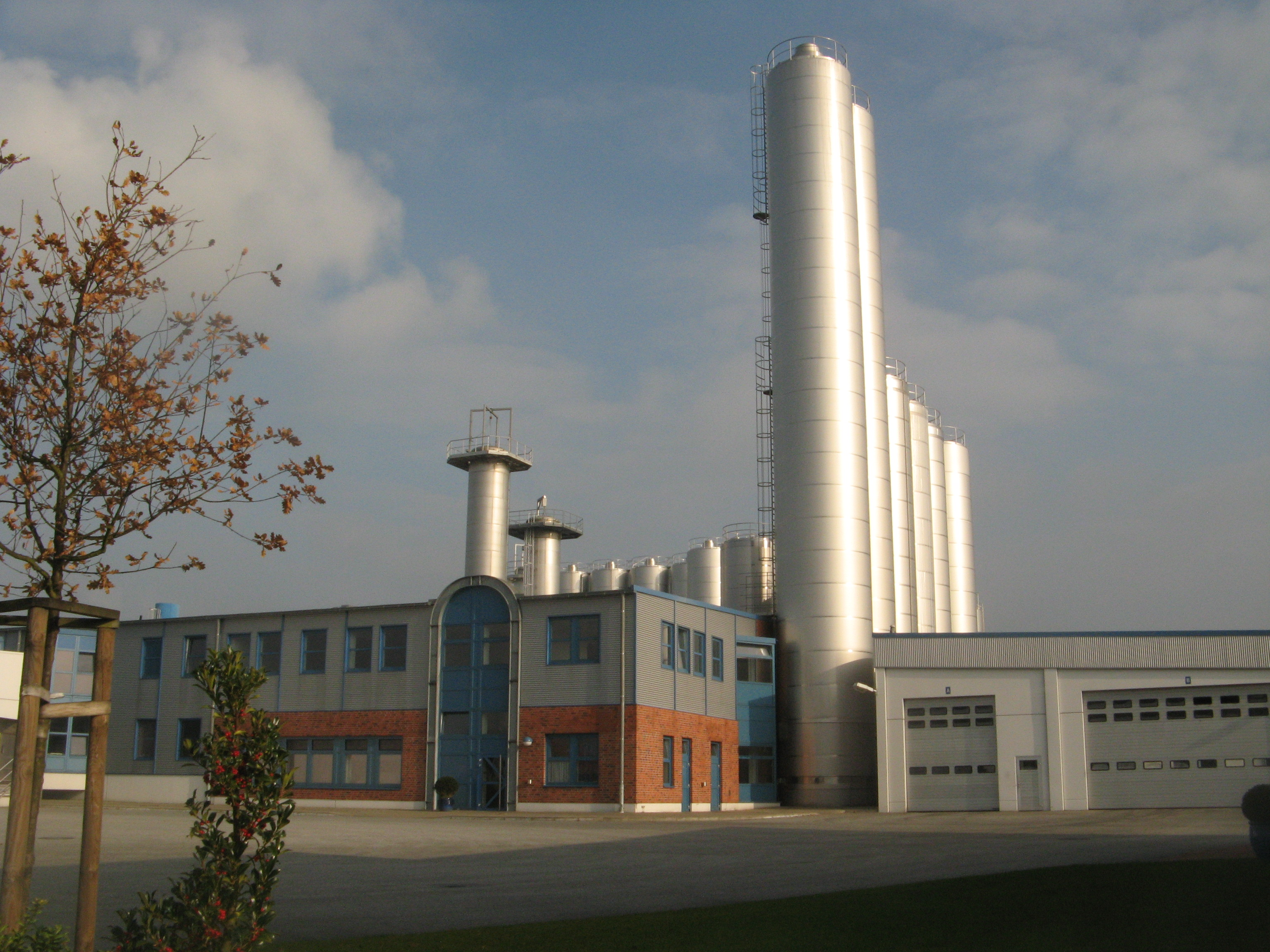 Dairy in Barmstedt, Holstein, Germany